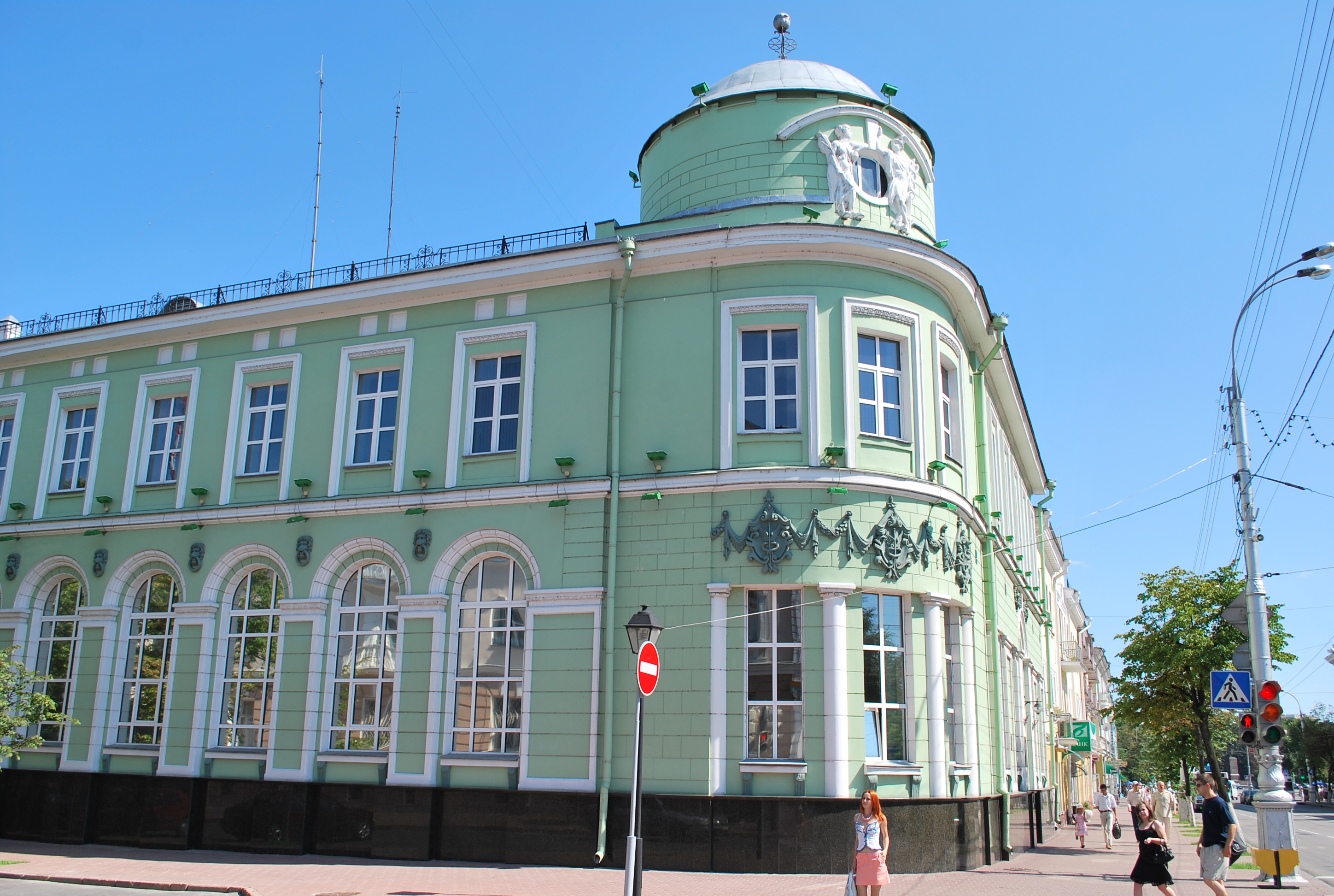 Building of National Bank Belarus, formerly Russo-Asiatic Bank, branch Gomel